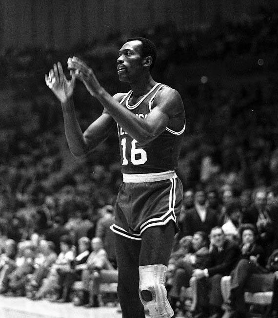 Basketball player Tom "Satch" Sanders, during his tenure on the Boston Celtics.